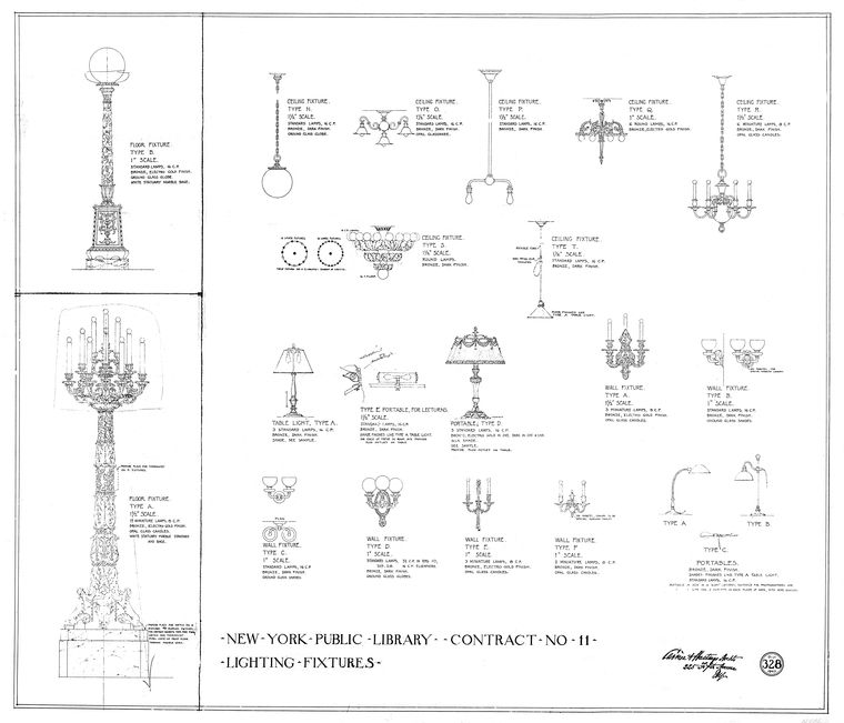 Lighting fixtures, architectural plans by the New York City firm Carrère & Hastings, designers of the New York Public Library. Courtesy of the New York Public Library Digital Collection.